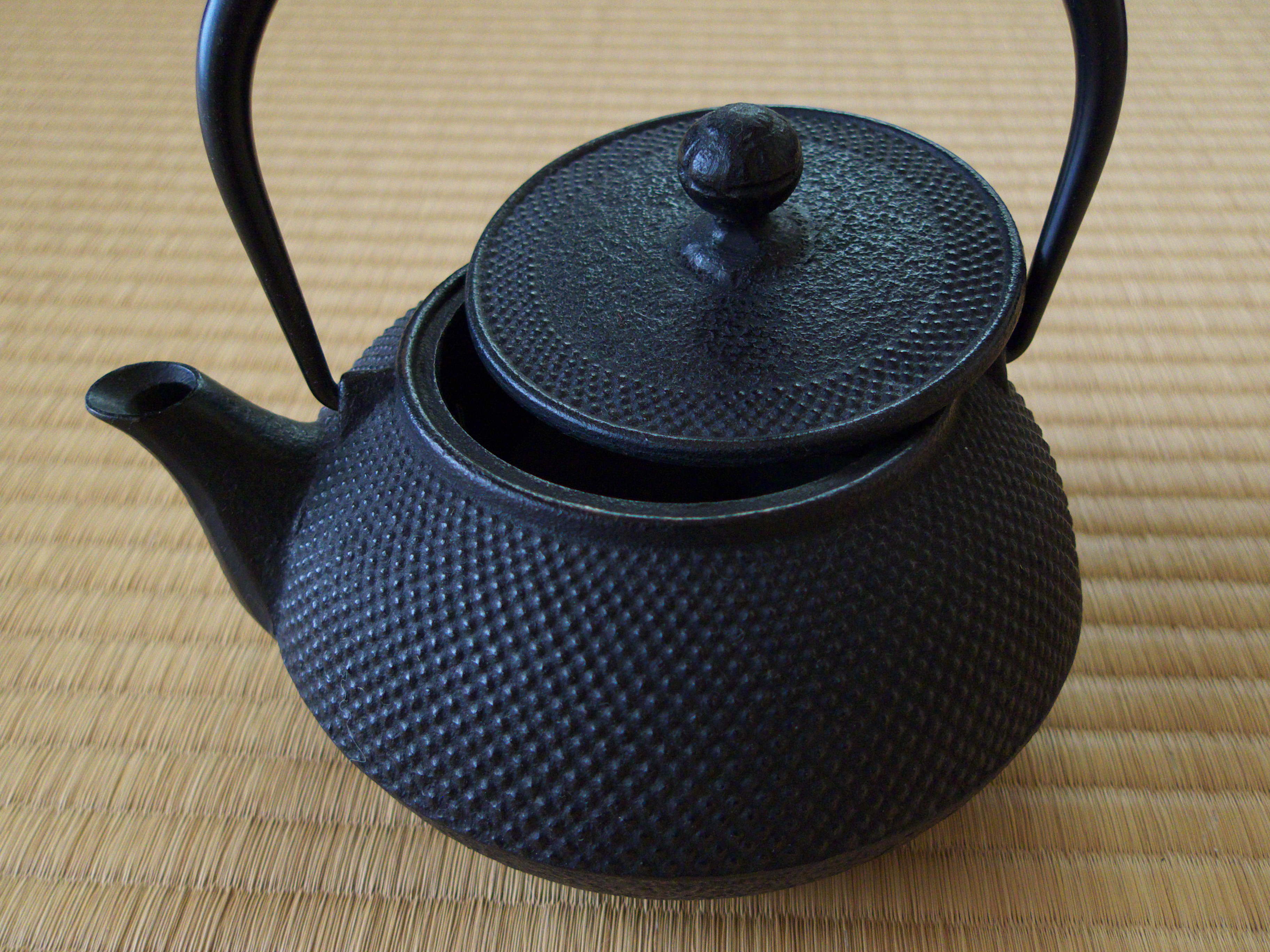 Nanbu Tekki